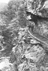 Charming Creek Tramway - cutting and tramline with wooden rails